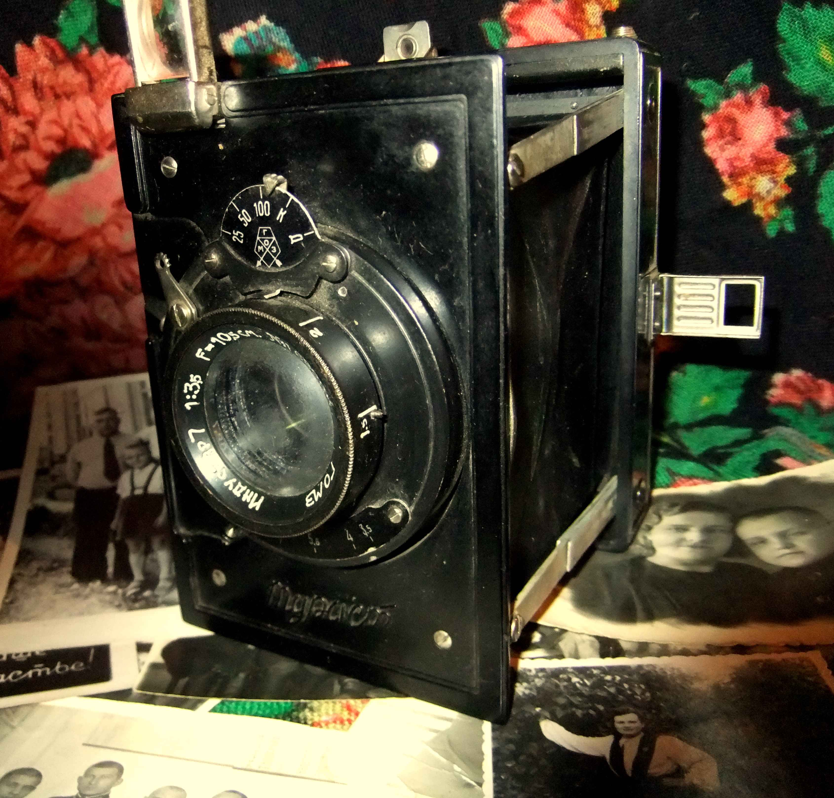 Фотокамера "Турист"